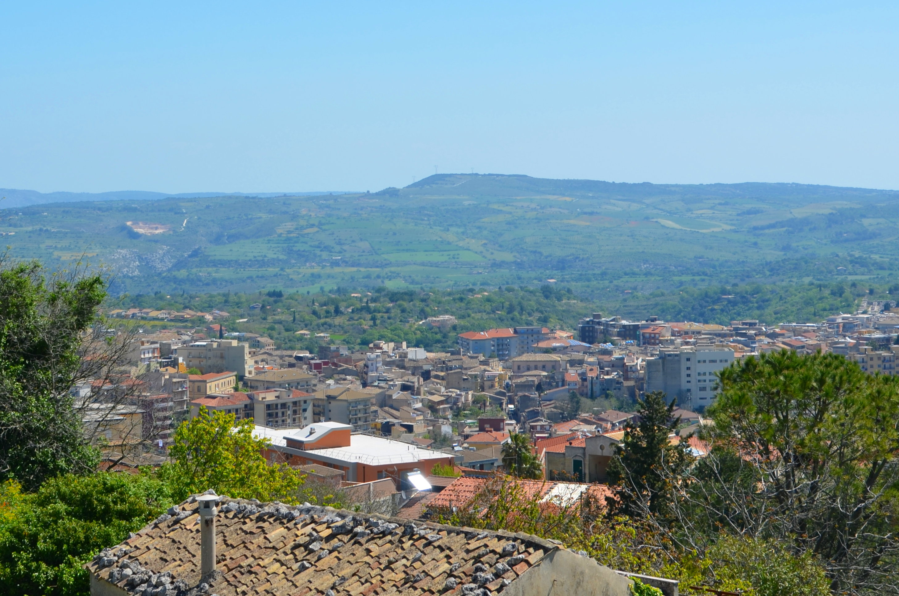 Taken from the acropolis of ancient Akrai.